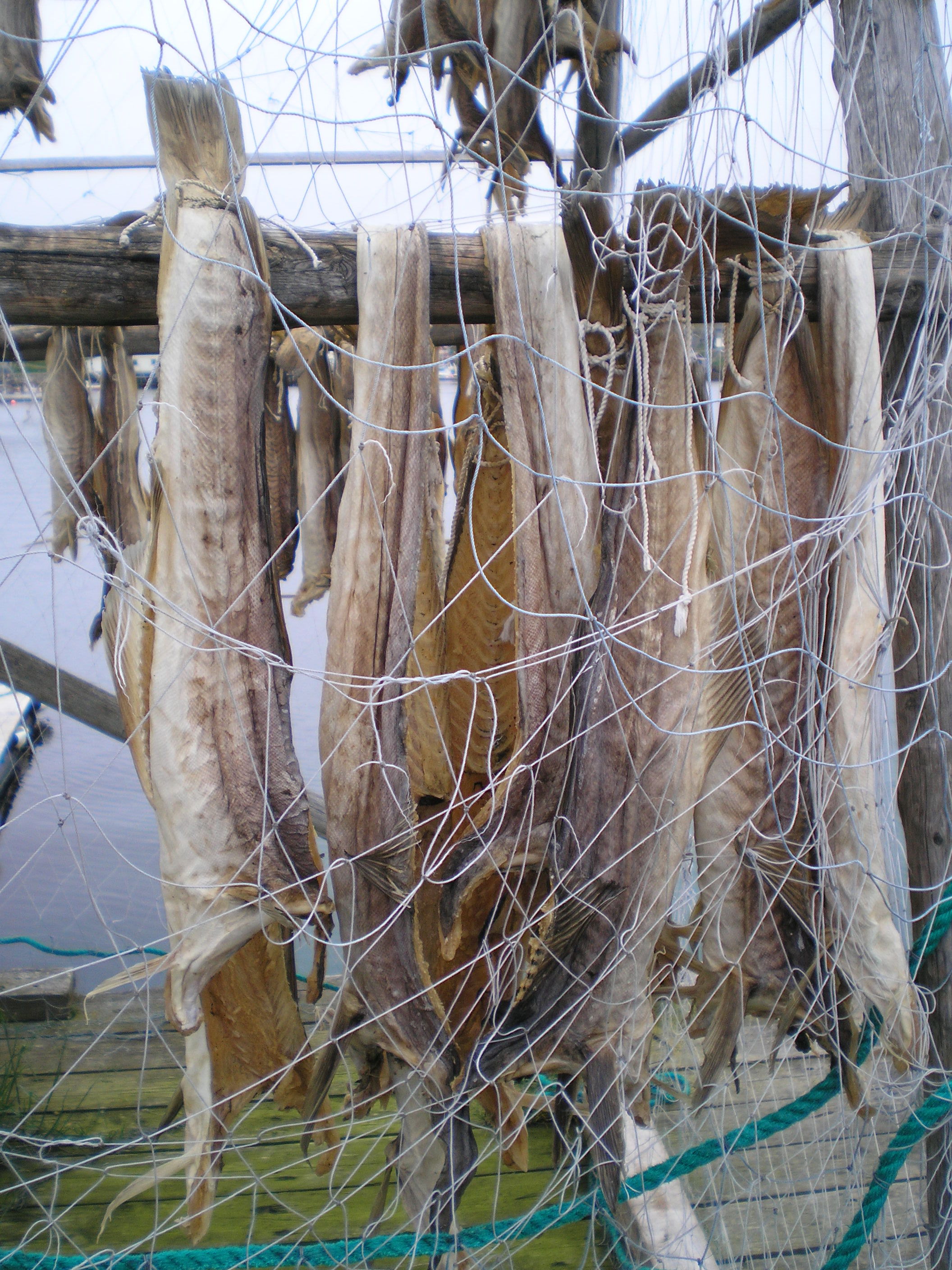 Drying cod in Gjesvær, Nordkapp, Norway.